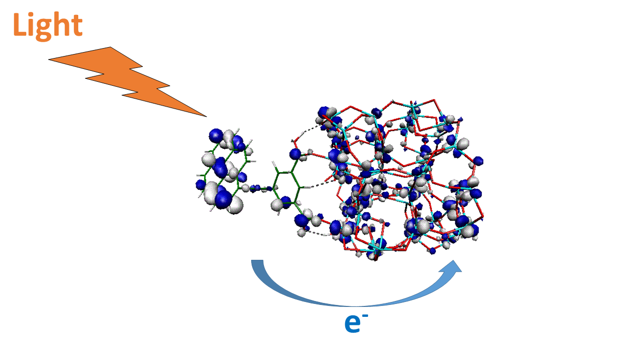 Photoinduced surface electron transfer. Quantum calculation of interfacial charge separation in a dye-sensitized solar cell. Adapted from "Calculations of interfacial interactions in pyrene-Ipa rod sensitized nanostructured TiO2" by S. Pal et al, Dalton Trans. sp. issue on Solar Energy Conversion, 45, 10021 (2009)